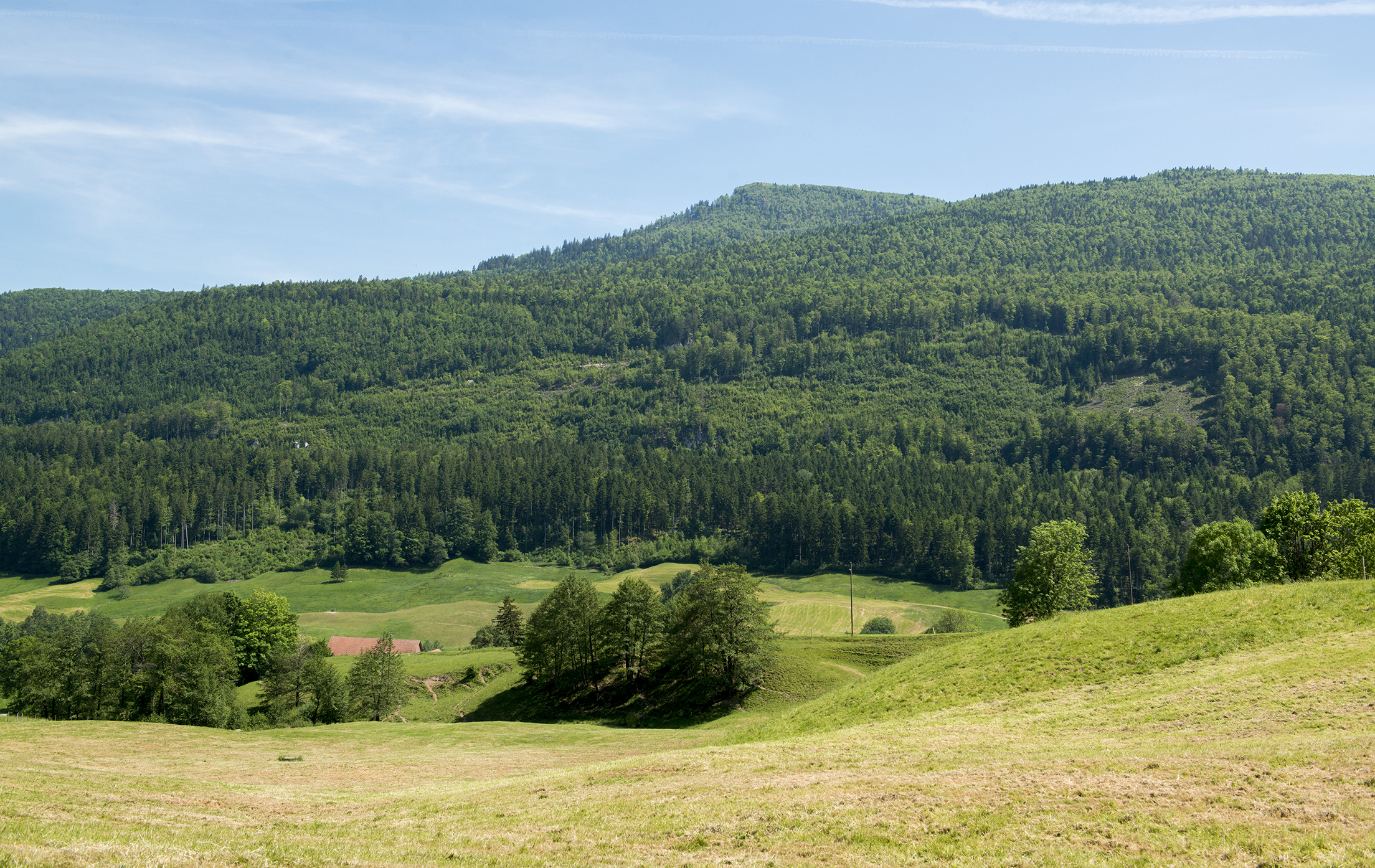 Naturpark Thal